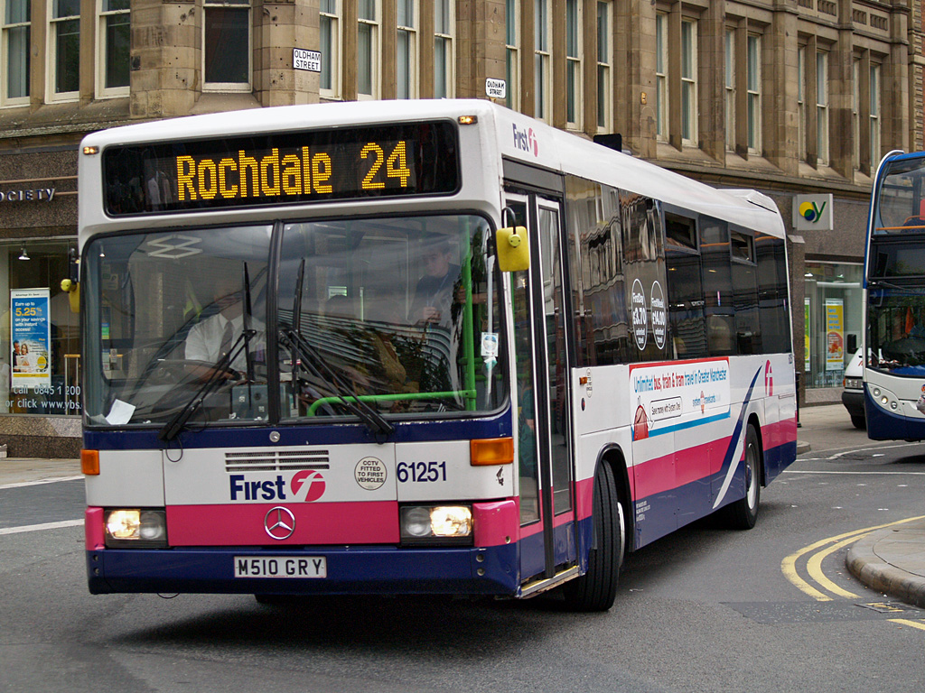 First Manchester Limited (originally First in Leicester) 61251 M510 GRY, a Mercedes-Benz O.405 built 1995 with an Optare ‘Prisma’ B49F body turns off Oldham Street, Manchester onto Piccadilly. Friday 25th July 2008